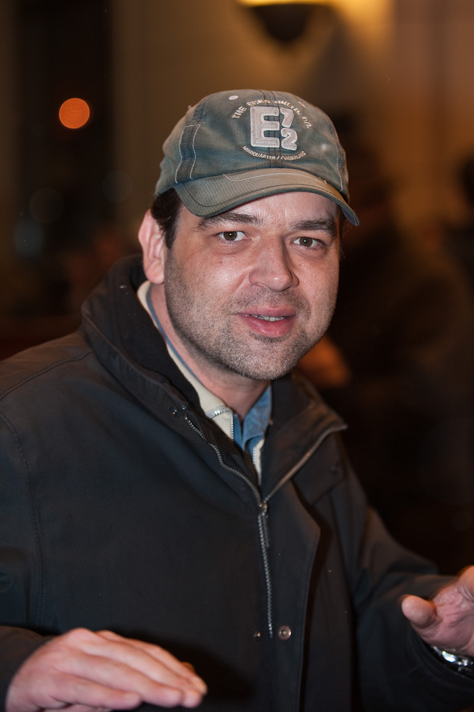 German film director Marc Rothemund at the 60th Berlin International Film Festival.